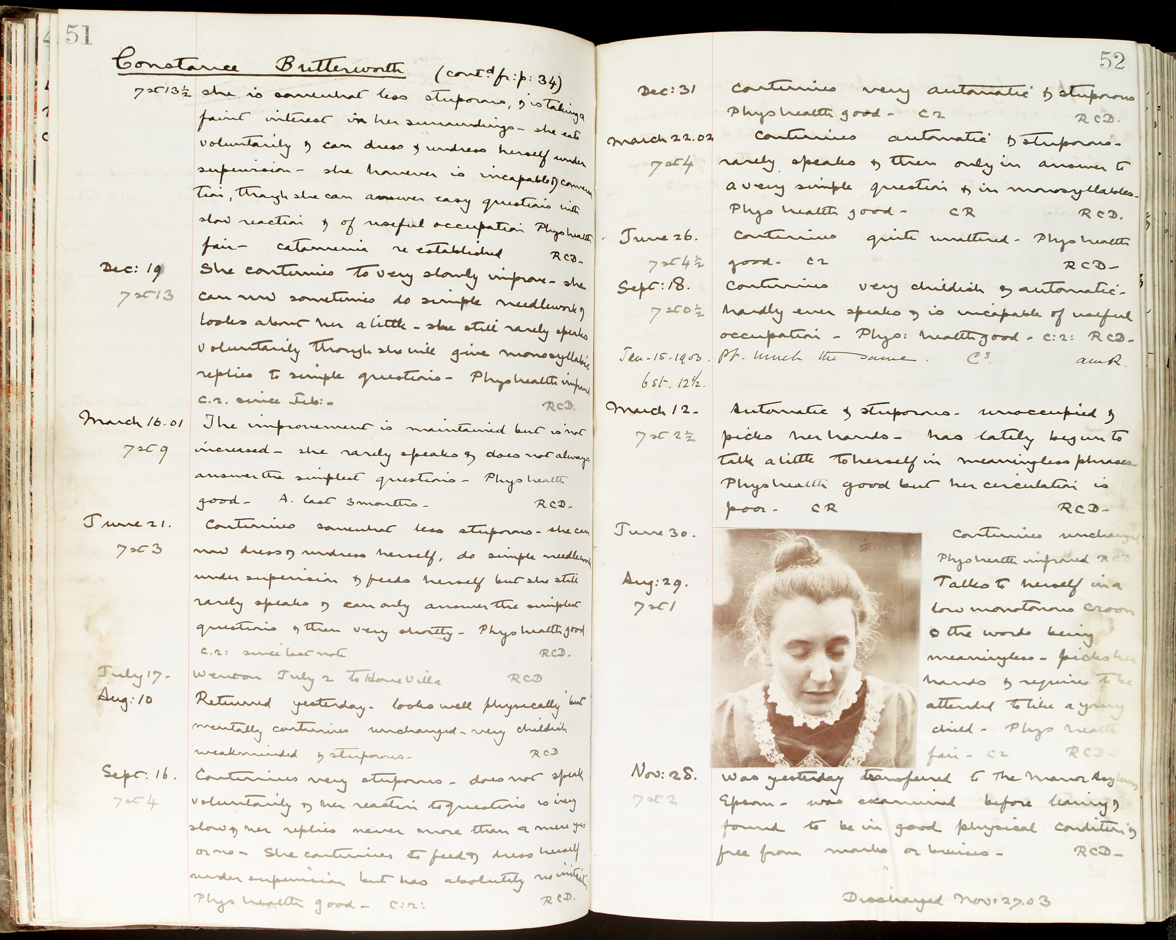 Medical Case history and photograph of one Constance Butterworth, a patient of Holloway Sanatorium, from Dec. 1900 through to Nov. 1901. Archives & Manuscripts Keywords: Madness; Lunatic; Sanatorium; Mental Disorder; Asylum; Mental Disorders